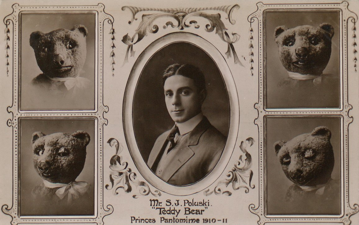 Sam Poluski of the Poluski Brothers as 'Teddy Bear' in the pantomime 'Jack Horner' at the Prince's Theatre, Bristol (1910)